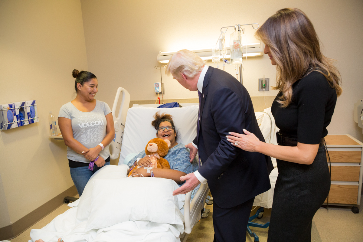 President Donald J. Trump and First Lady Melania Trump visit with patient Tiffany Huizar, Wednesday, October 4, 2017, at the University Medical Center of Southern Nevada, who was injured in the mass shooting, Sunday, October 1, 2017, in Las Vegas, Nevada. (Official White House Photo by Shealah Craighead)